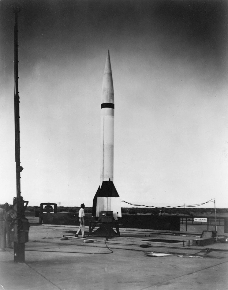 The first U.S.-designed ballistic missile was the MX-774, developed by Convair in the late 1940s at its own expense. Although the MX-774 never went into production, it provided valuable data in the 1950s when the United States began developing intermediate range and intercontinental ballistic missiles using nuclear warheads. IRBMs had a range of less than 1,500 miles, and ICBMs, more than 1,500 miles. (U.S. Air Force photo)